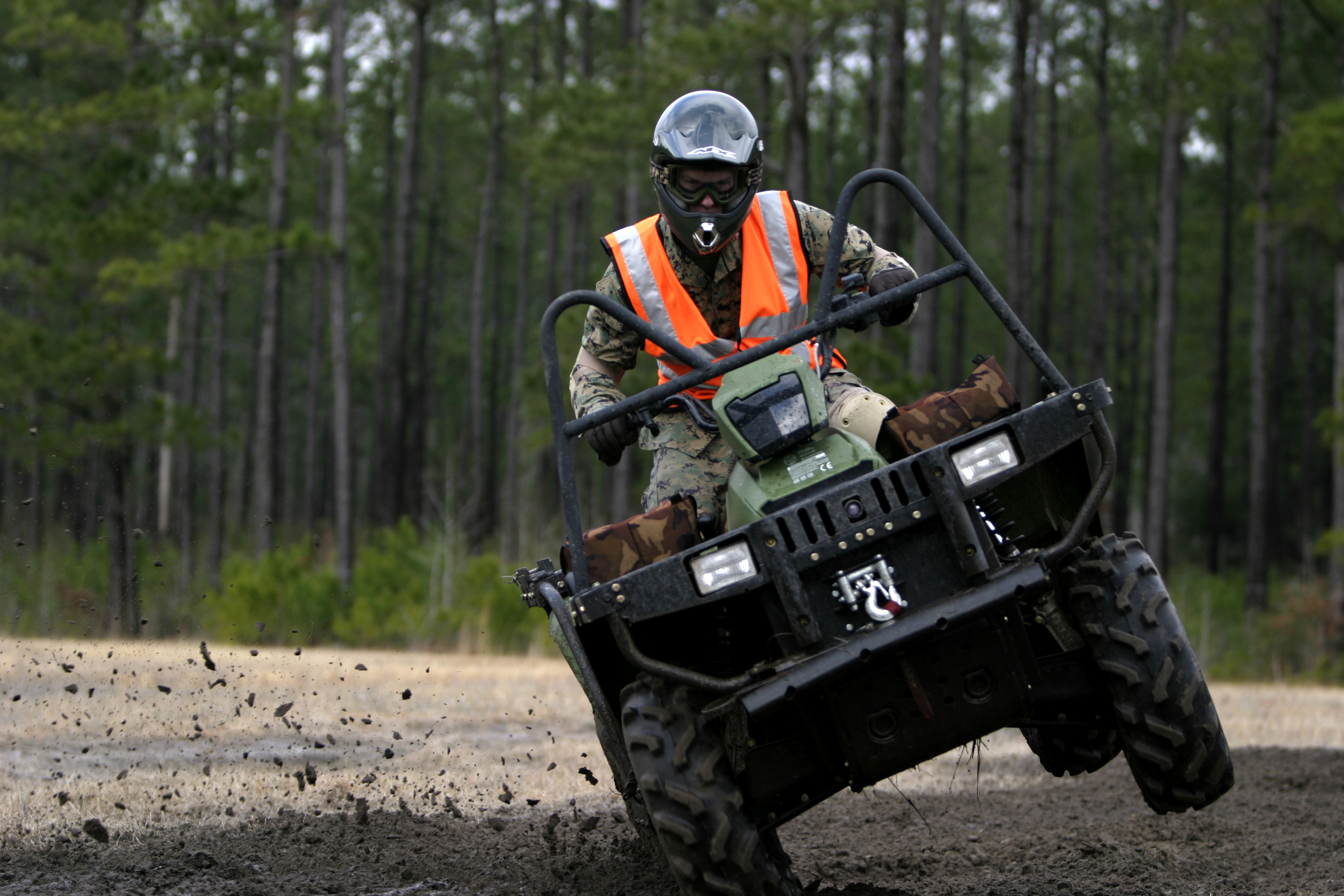 An operator taking part in the U.S. Marine Corps Forces, Special Operations Command's All-Terrain Vehicle course practices shifting his body weight, Feb. 19, at Landing Zone Robin. The operators, Marines with Marine Special Operations Advisor Group, MARSOC, spent, Feb. 18-20, training to operate ATVs and gain a U.S. Government Motor Vehicle Operator's Identification Card for ATVs.